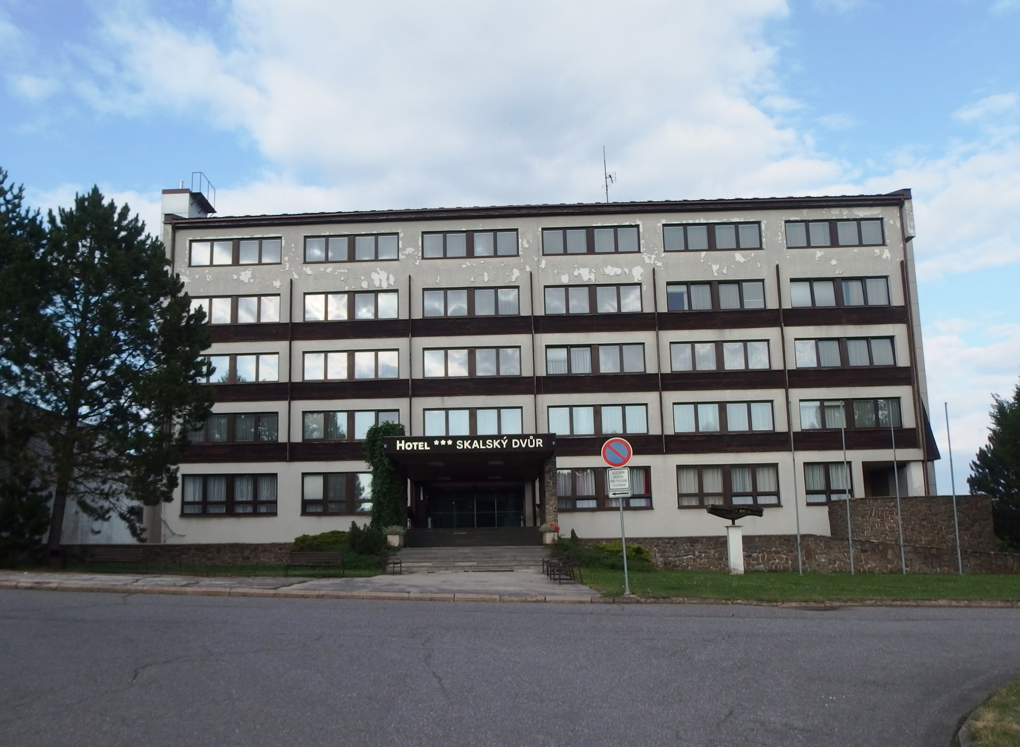 Lísek, Žďár nad Sázavou District, part Lhota.